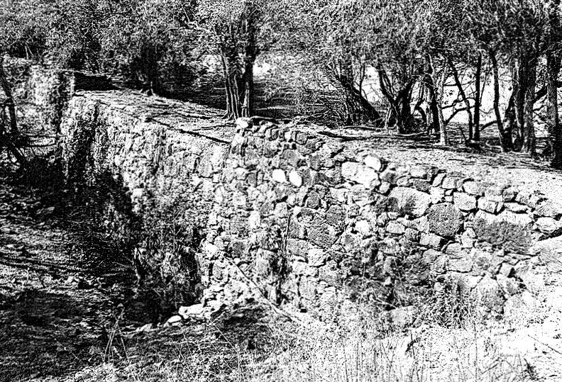 Homeward Bound Battery and Dam, overshot weir showing spillway (1994)